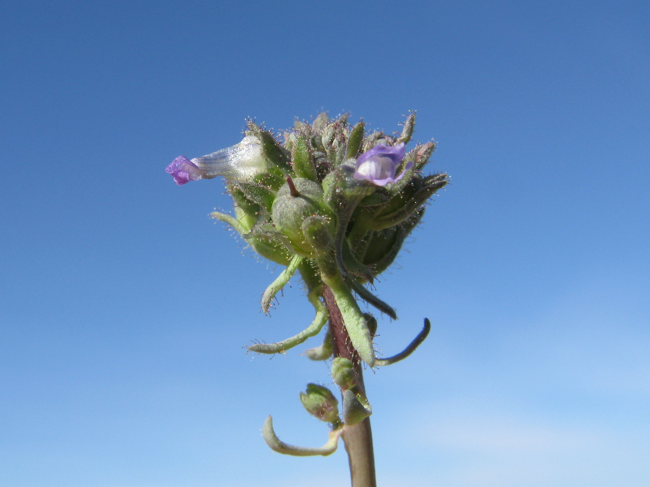 Introduced, cool season, annual erect, glaucous, simple or much-branched herb, 10–40 cm tall; hairless except for glandular-hairy sepals. Leaves are linear to narrow-elliptic and 0.4–3.5 cm long; whorled below, but alternate up the stem. Flowerheads are many-flowered spikes to racemes; at first dense then elongating in fruit. Flowers are nearly sessile, but pedicels are 1–2 mm in fruit. Sepals are 2 mm long. Petals are 2-lipped, 3–4 mm long, pale blue to purple, palate at least sometimes white, and with a spur 1.5–3 mm long and curved; upper lip pointed outwards, lower lip longest, recurved. Fruit are rounded capsules 3–4 mm long. Flowering is in spring. Found chiefly in disturbed sites along roadsides and railway lines, or in pasture, and in forest and woodland.